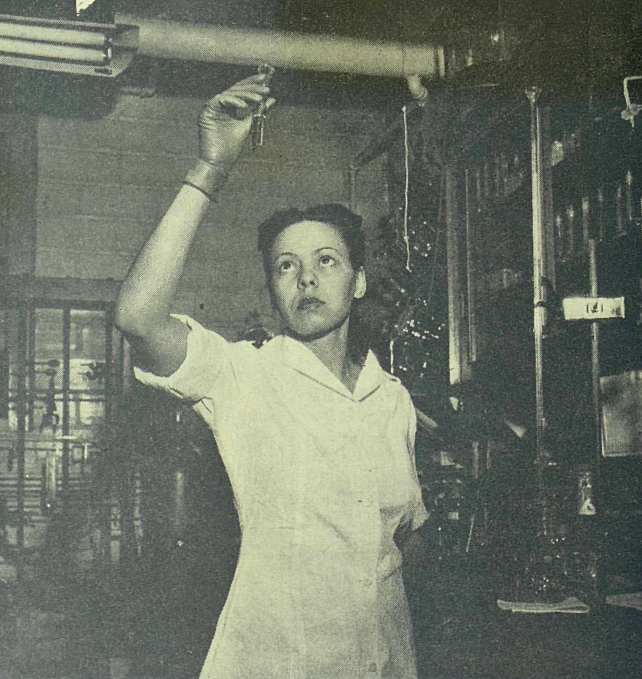 Photograph of Blanche J. Lawrence from "Atom Scientists: Ten Negro Scientists at Argonne Lab Help in Race to Harness Atomic Materials”, Ebony magazine, September 1949, pp. 26-28. Copyright not renewed. The caption reads: "Blanche Lawrence, 28, is widow of 99th Pursuit Squadron pilot who was killed in action overseas. Working at Argonne for past five years, Tuskegee graduate started as lab technician and is now junior biochemist."